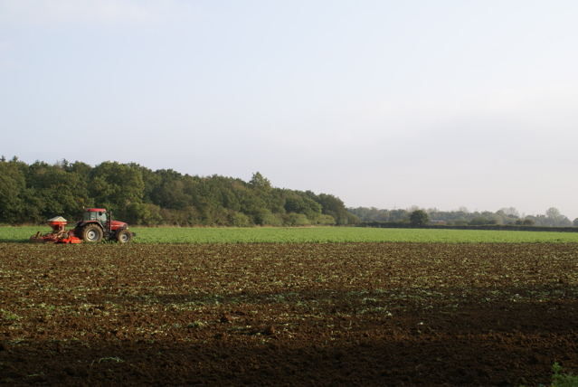 Mulch-tillage (seeding with minimum tillage). – The farmer was "ploughing in" a leguminous crop (which was used as "green fertilizer" or "green manure") in the late afternoon sunshine with a seed drill. The scene captured the essence of this gridsquare, showing the agricultural activity against the backdrop of Shabbington Wood in Bernwood Forest.